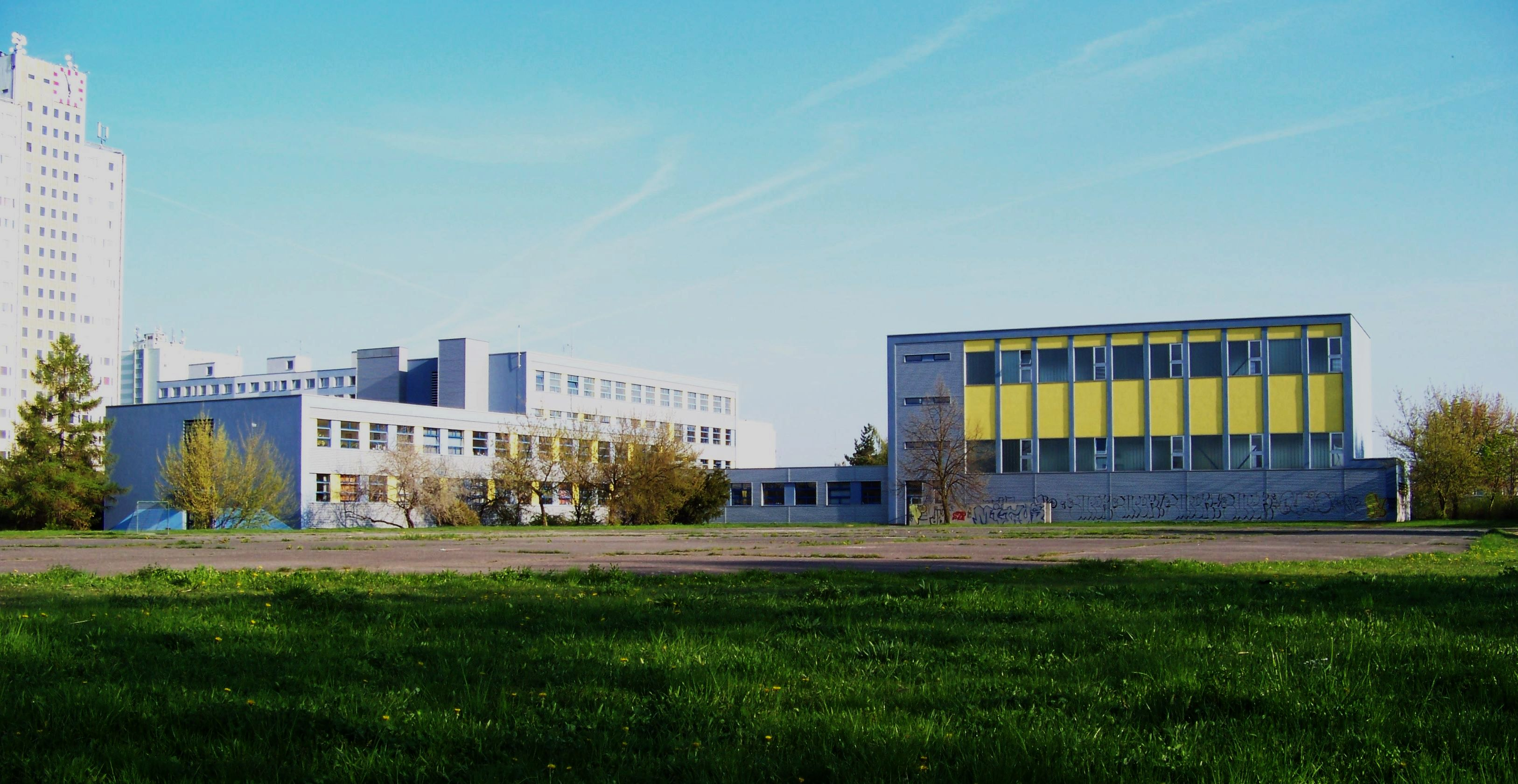 Háje, Prague, the Czech Republic. The Blue School. - Google Maps - Google Earth